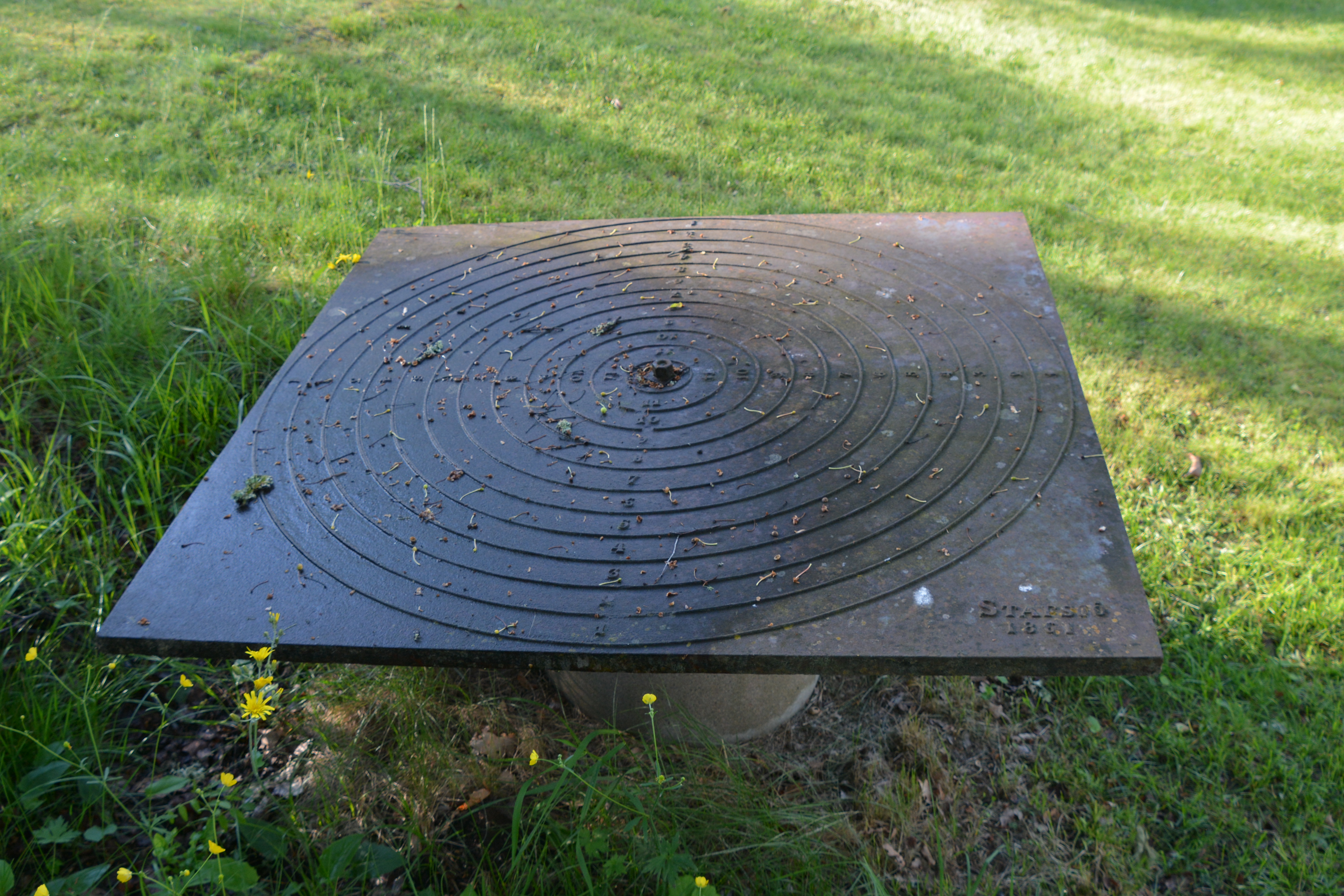 Target in cast iron, made by Stafsjö Bruk, Sweden